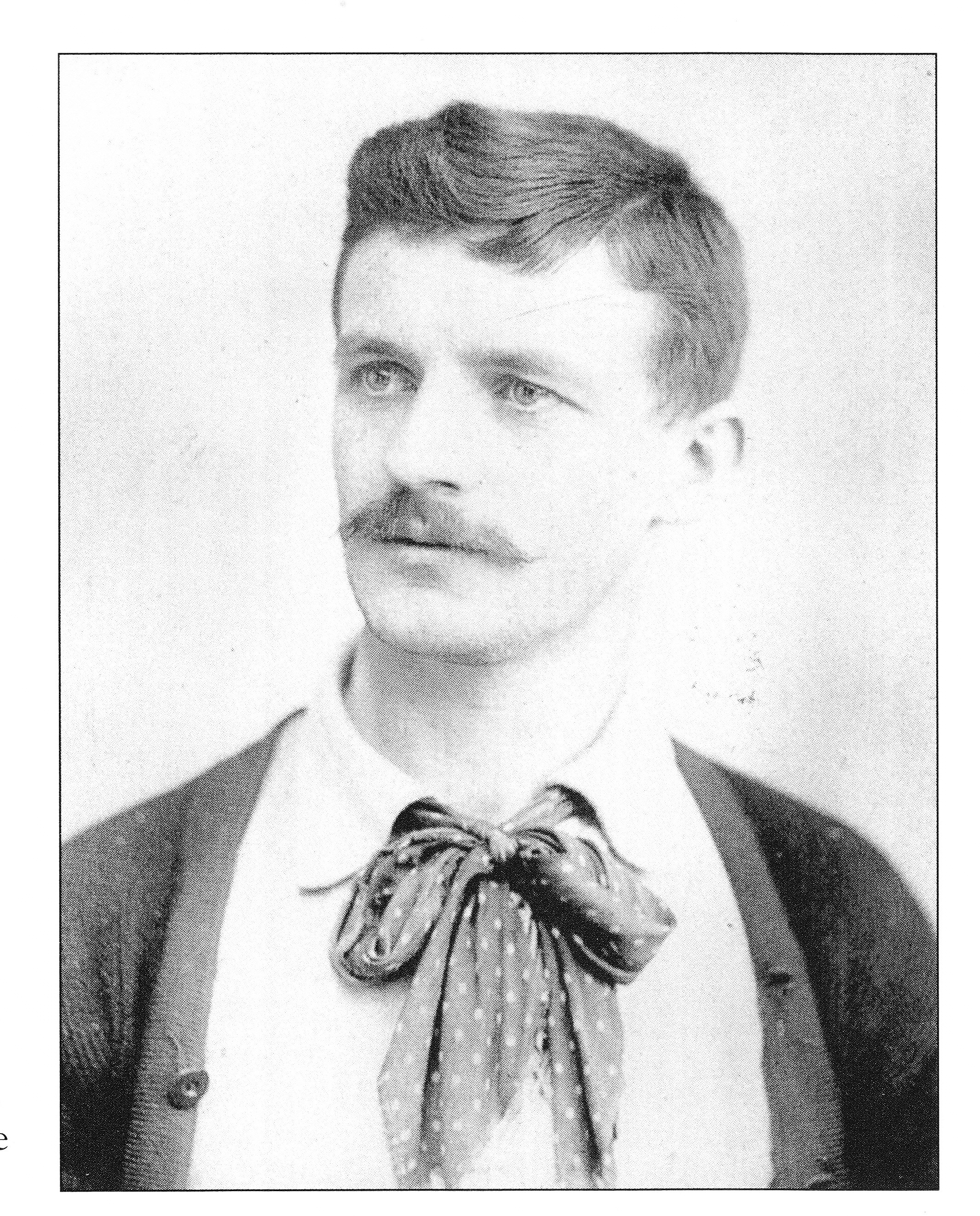 A portrait of the sculptor August Zeller from approximately 1888.